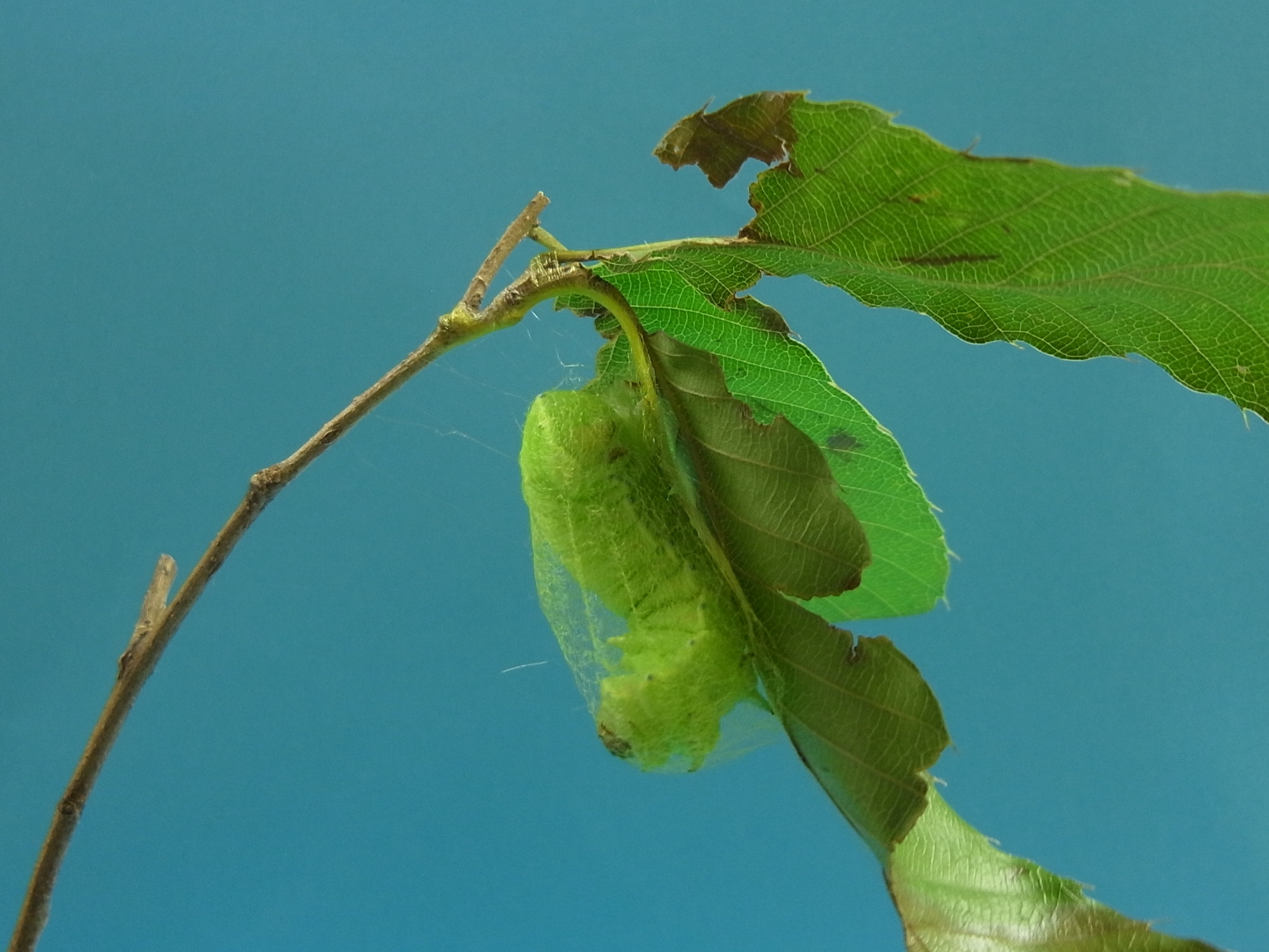 Making a cocoon of Rhodinia fugax